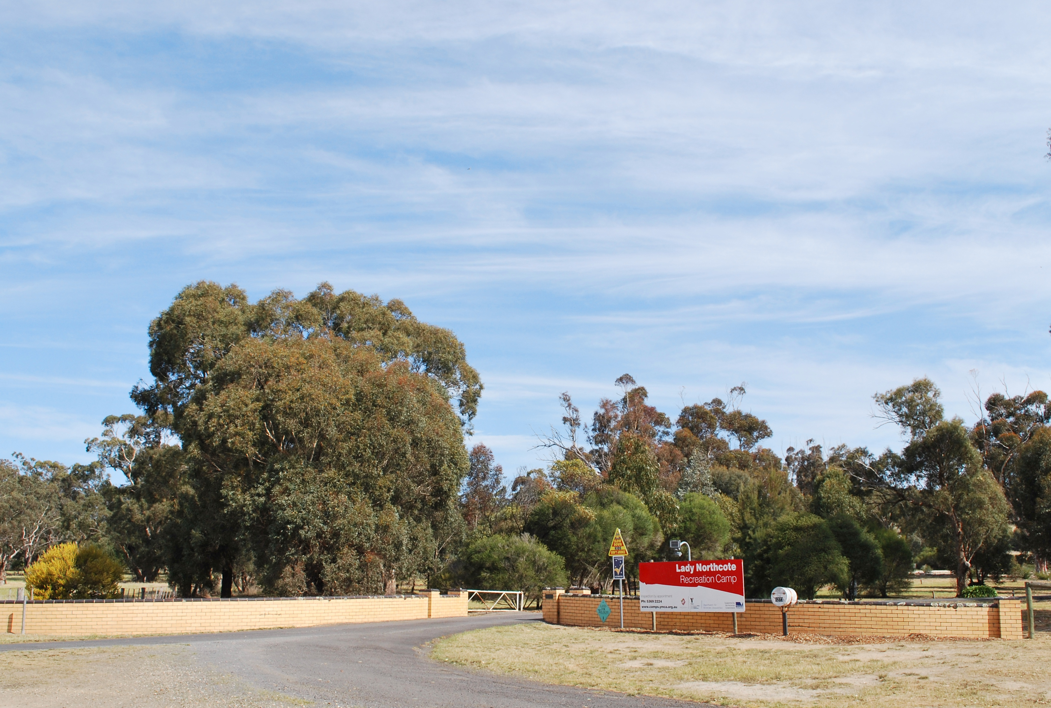 Lady Northcote camp at Rowsley, Victoria